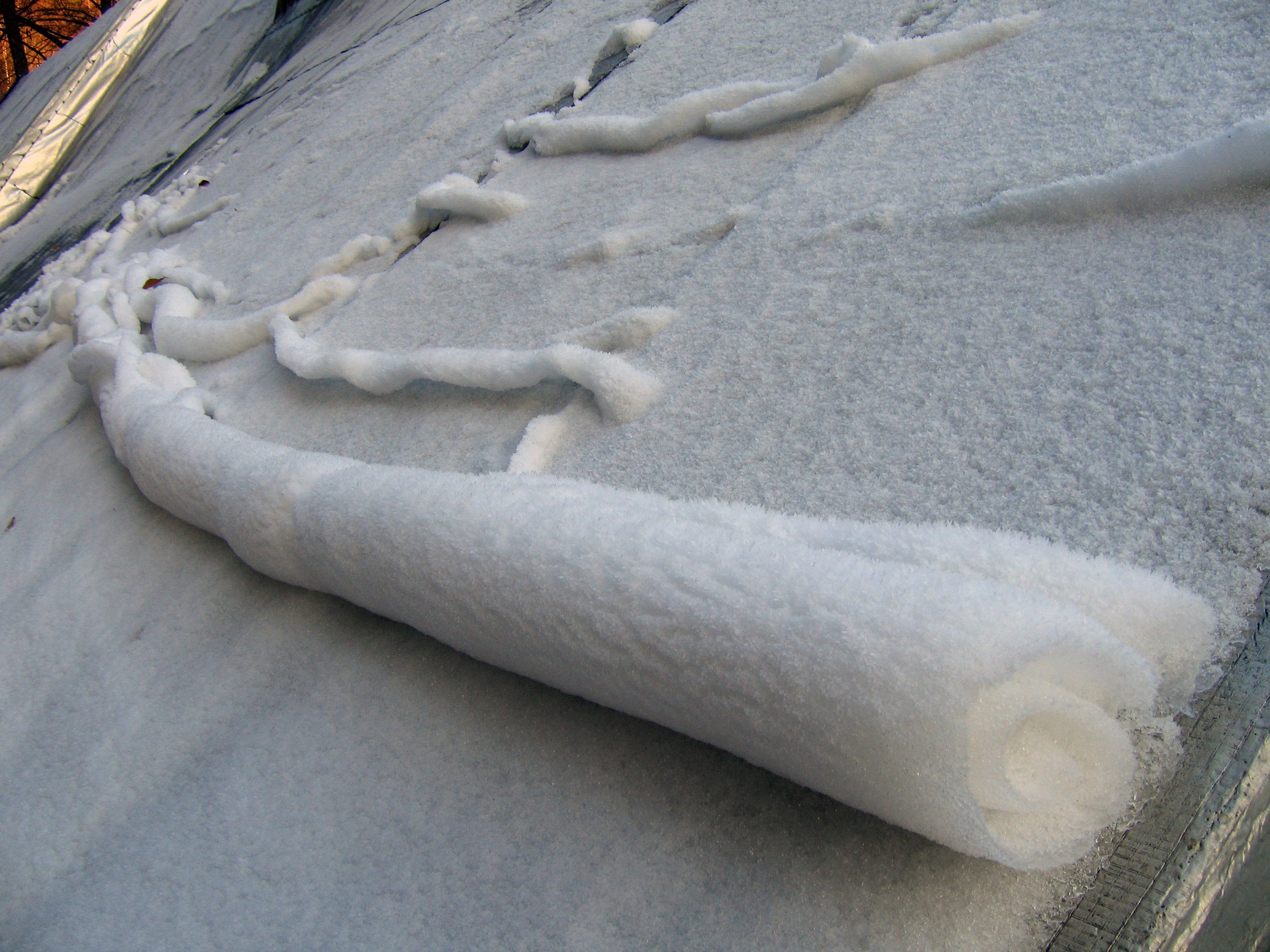 Snow roller on the roof in Krkonoše.